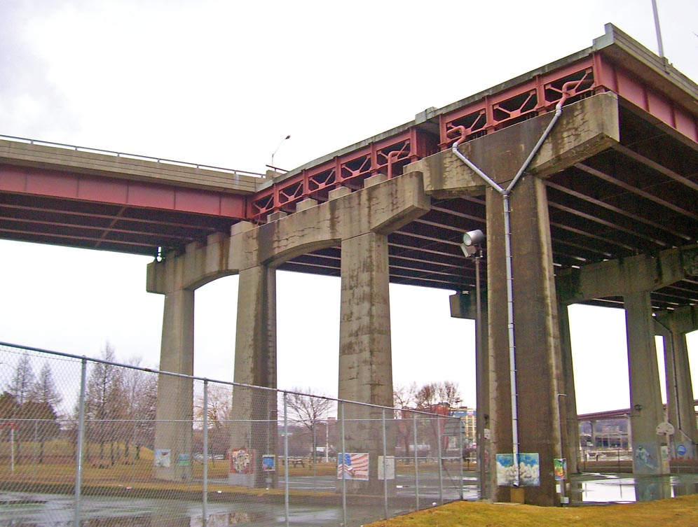 The stub ramps at the Dunn Memorial Bridge's eastern end, built for the canceled South Mall Expressway